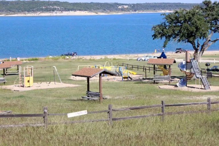 Belton Lake